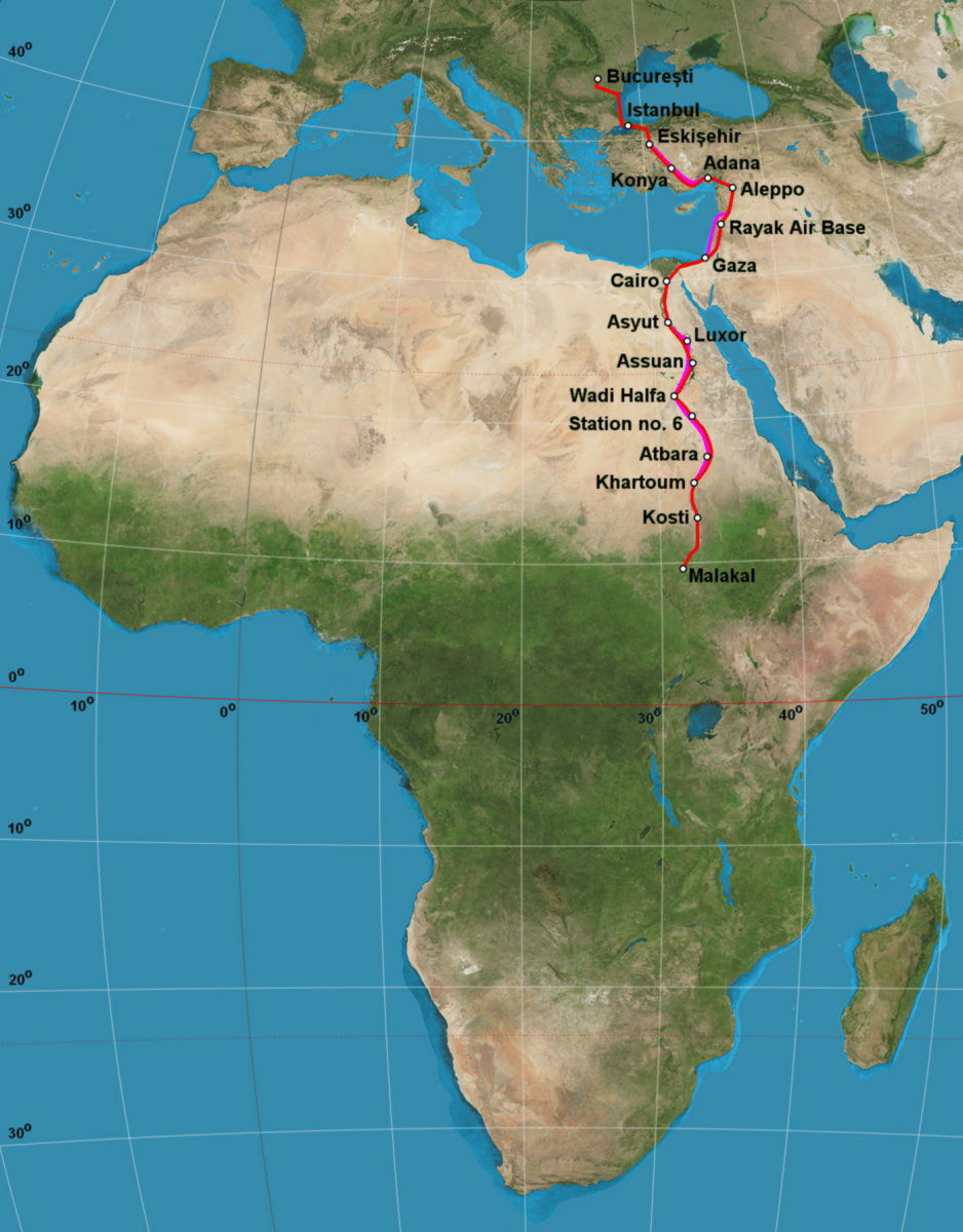 Route of Romanian aviation raid in Africa, Malakal, 1933